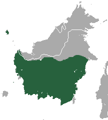 Ruddy Treeshrew (Tupaia splendidula) range